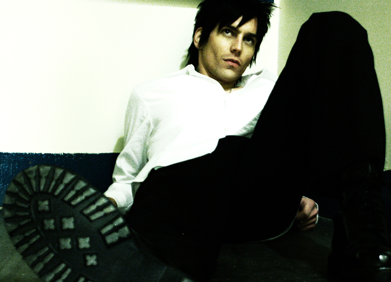 Tony Vincent.